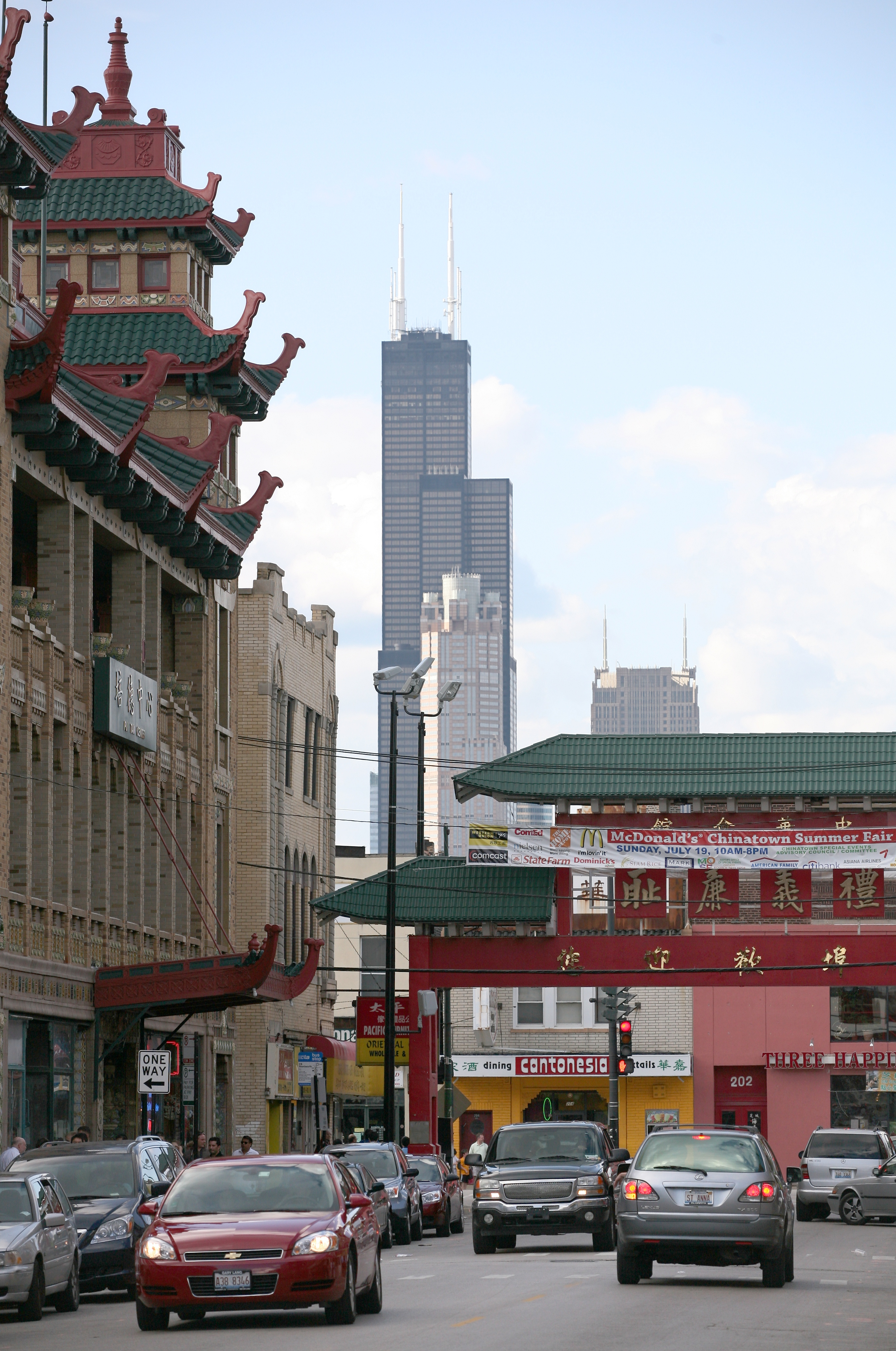 Willis Tower as seen from South Wentworth Avenue at China Town.